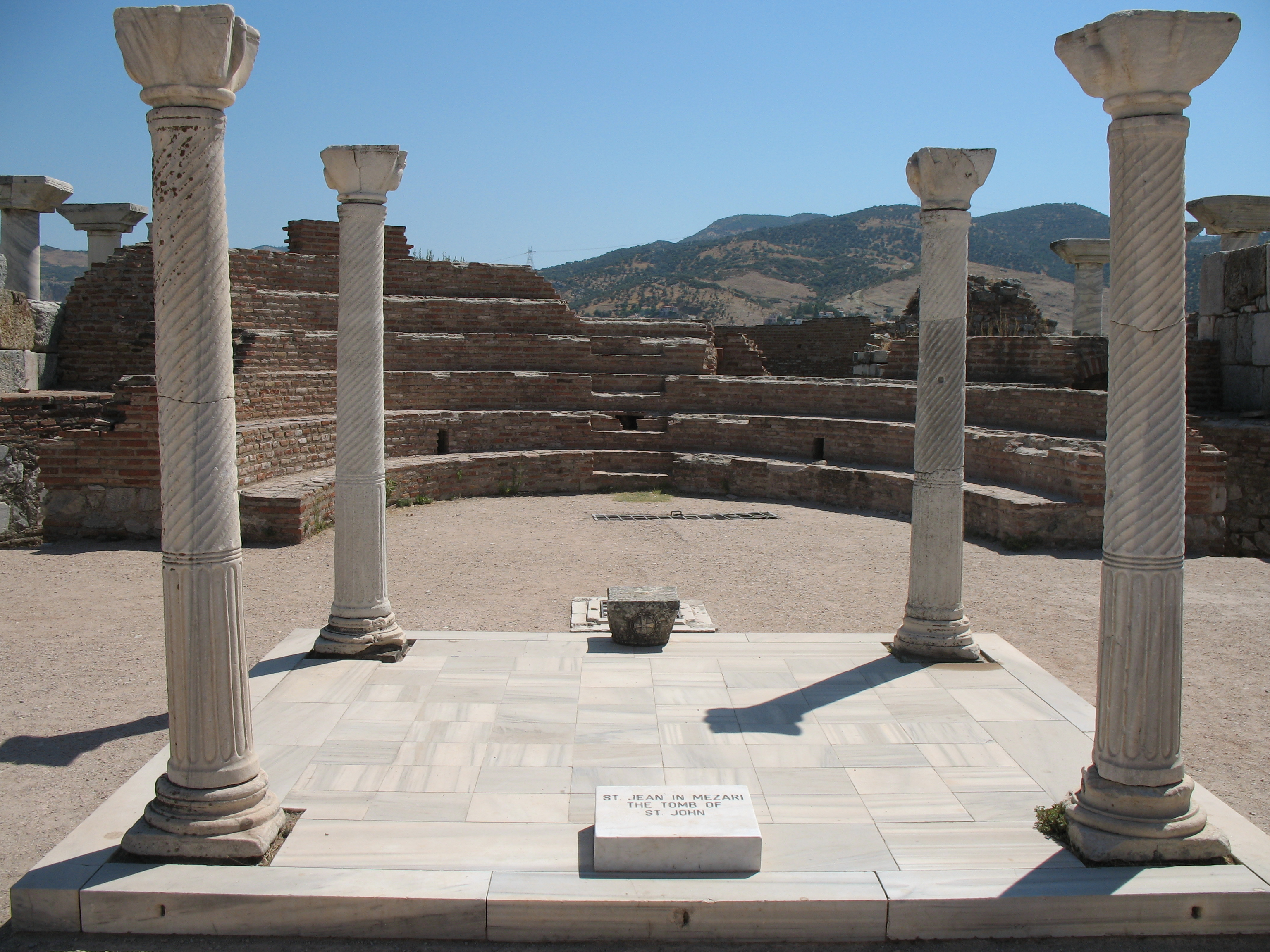 St. Jean'ın mezarı, the Tomb of St. John the Apostle, in St. John's Basilica, Ephesus, near modern day Selçuk, Turkey.